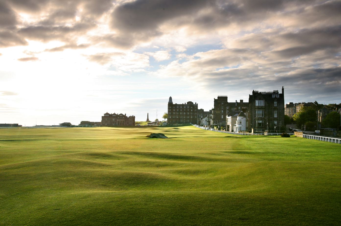 The 18th tee at the Home End of the Old Course at St Andrews Links